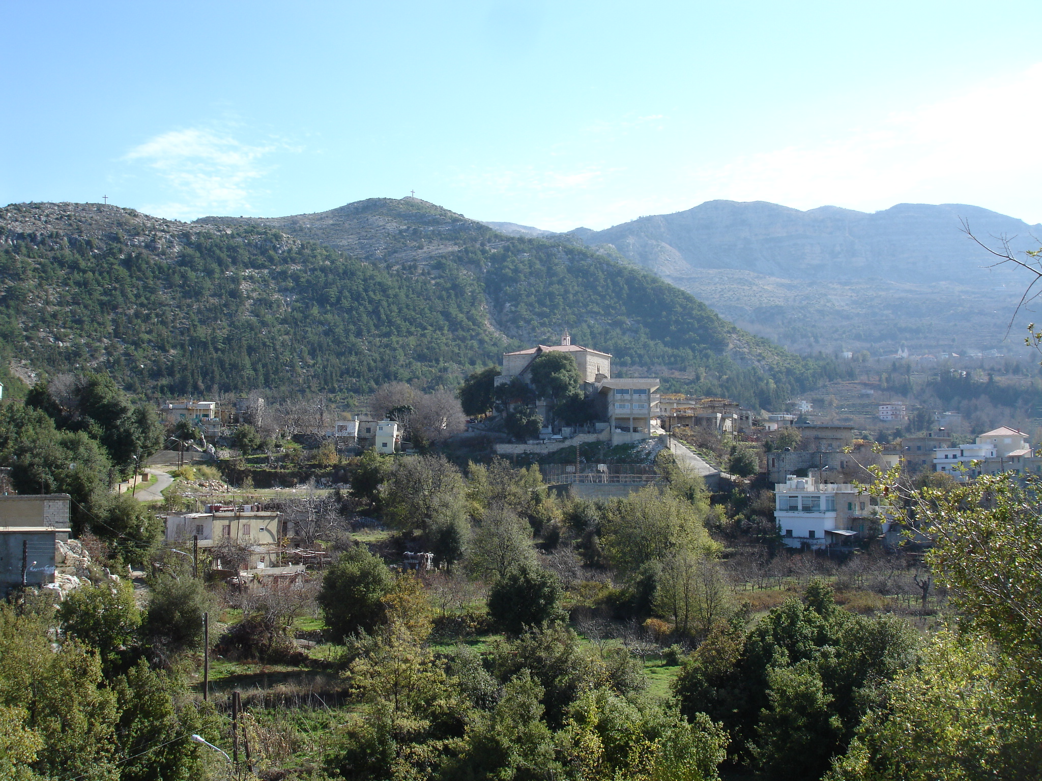 Author: Charbel Gereige Source: I took it myself, also available on: URL